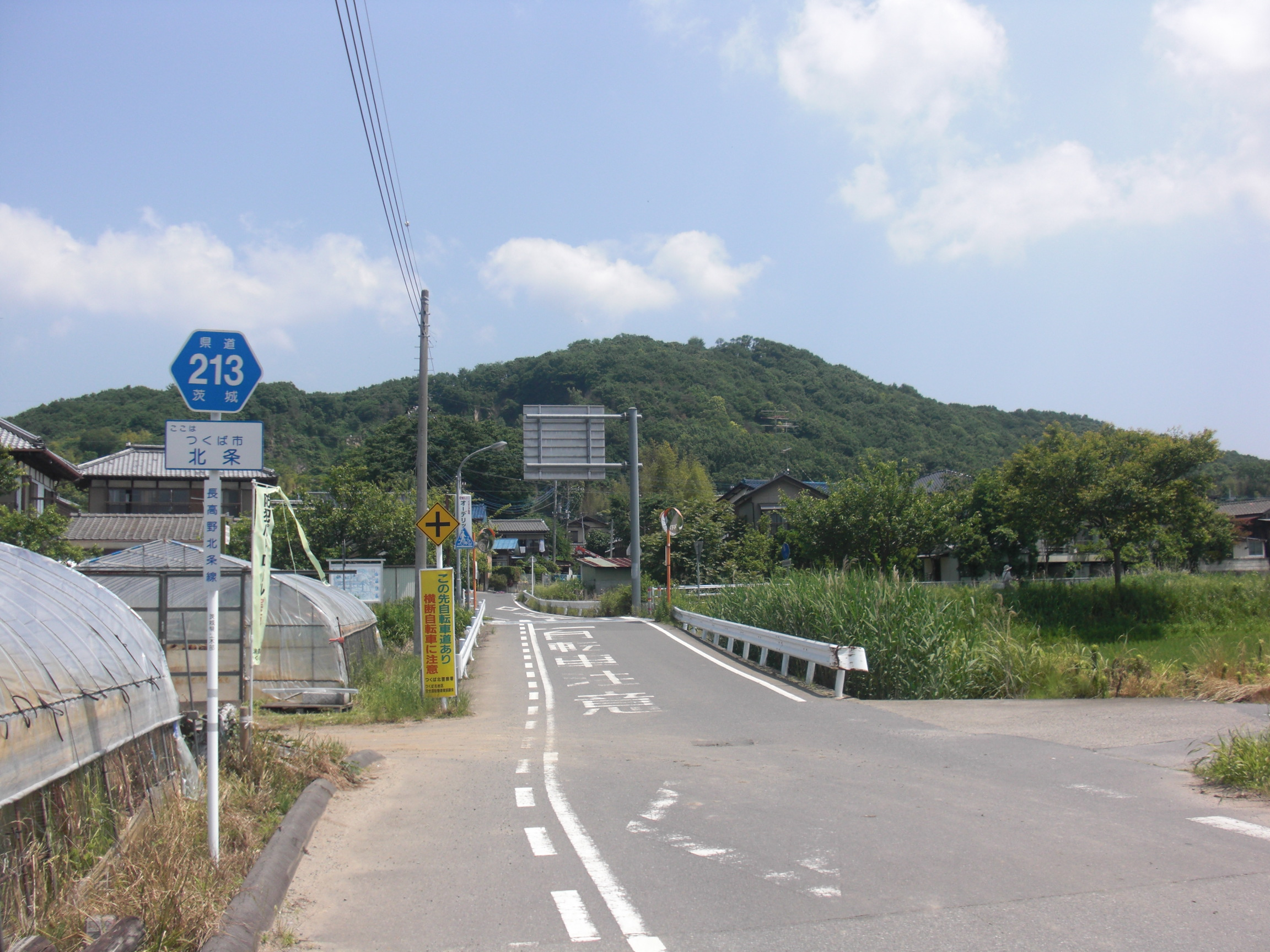 This is a landscape of the end point of Ibaraki prefectural road No.213 Osagoya-Hojo line.